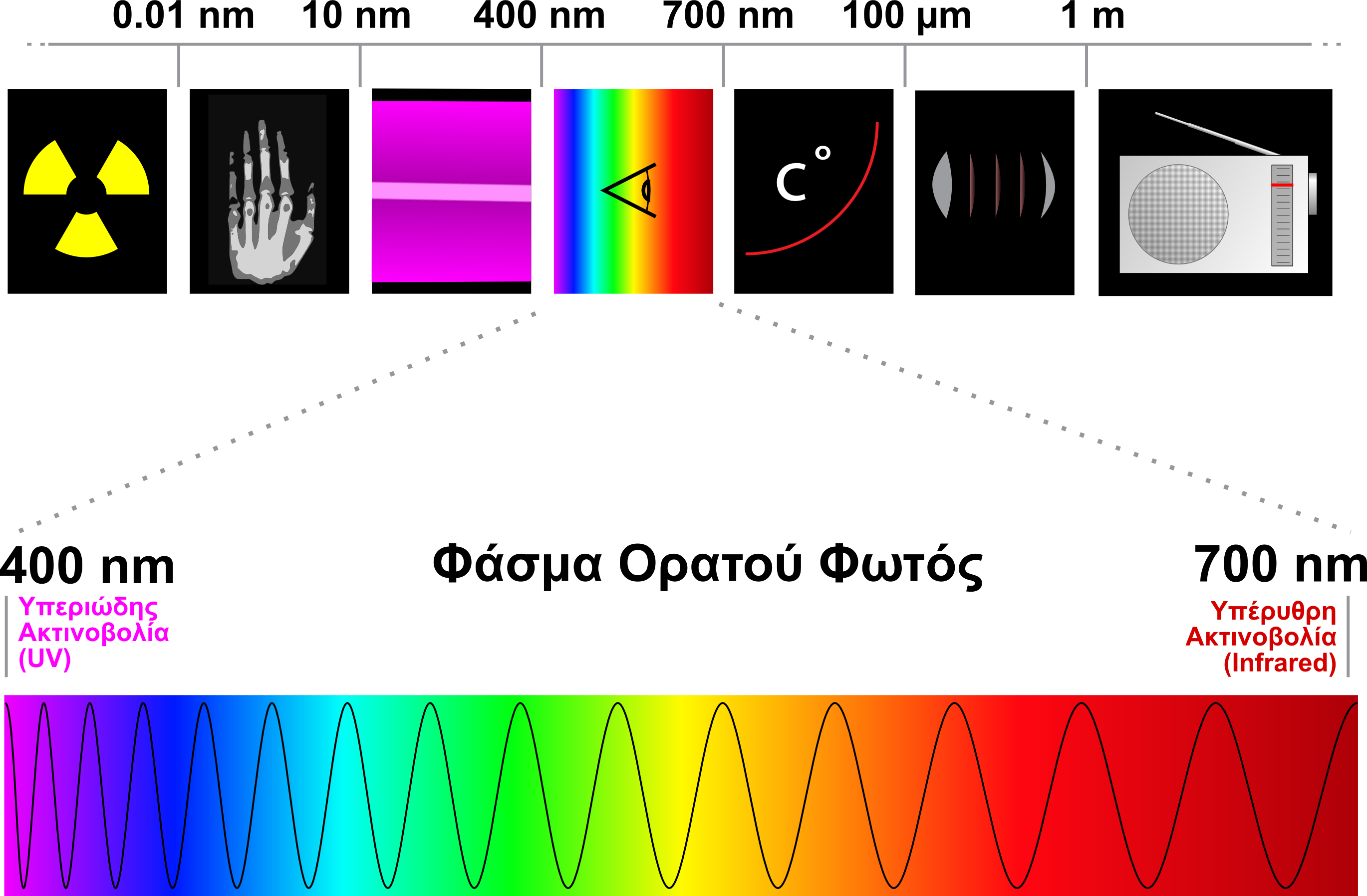 Electromagnetic spectrum illustration showing visible spectrum location. With Greek captions.